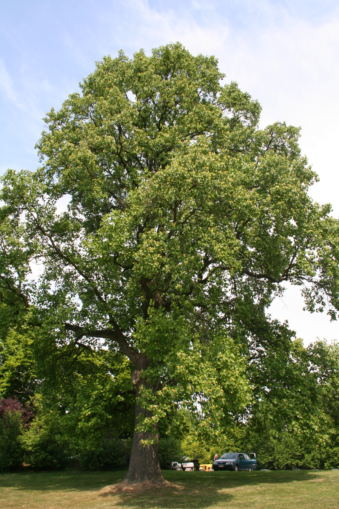 Liriodendron tulipifera - Laeken park (Belgium).